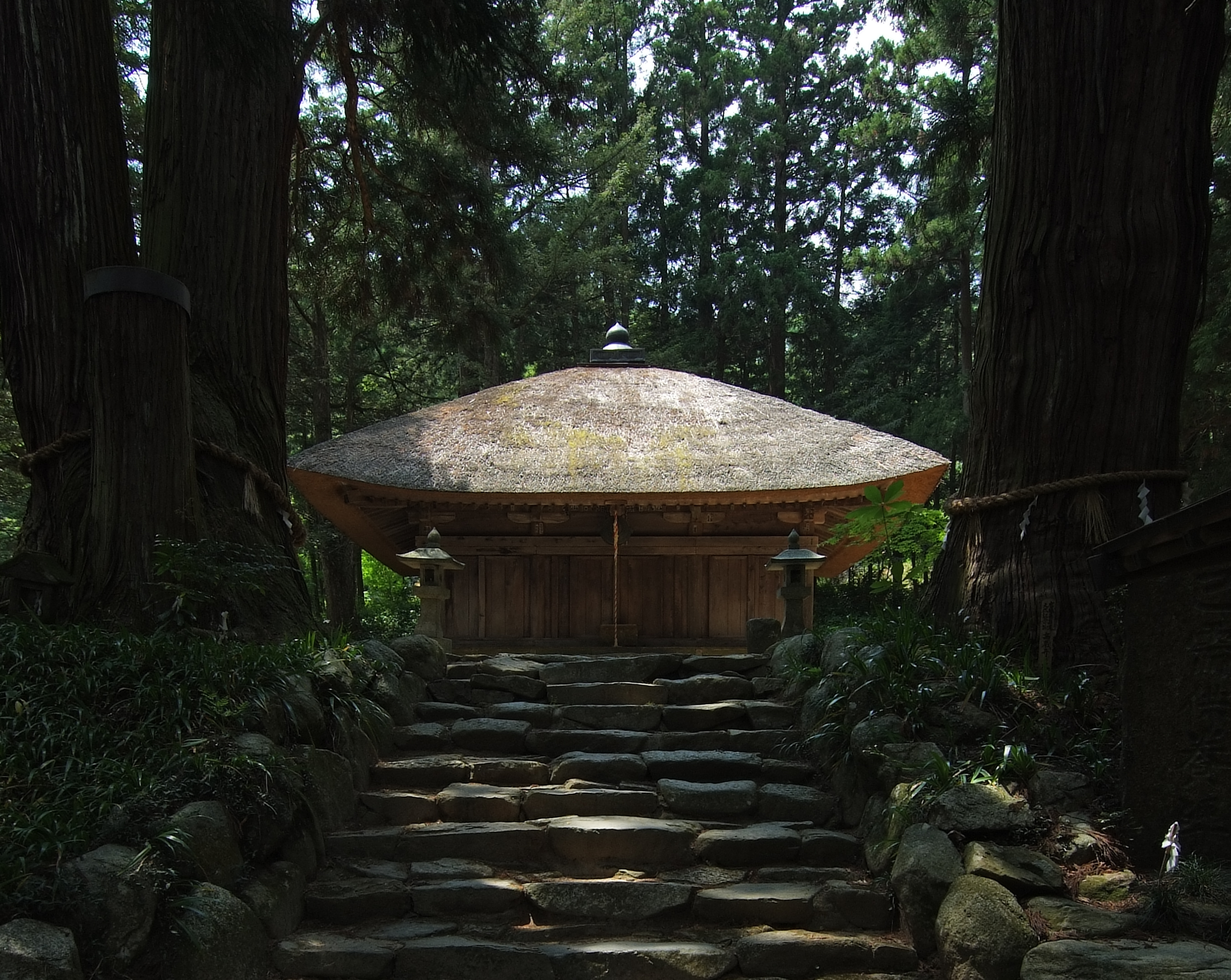 Amidado, built in 1177, at the Kozoji temple in Kakuda City, Miyagi Prefecture, Japan